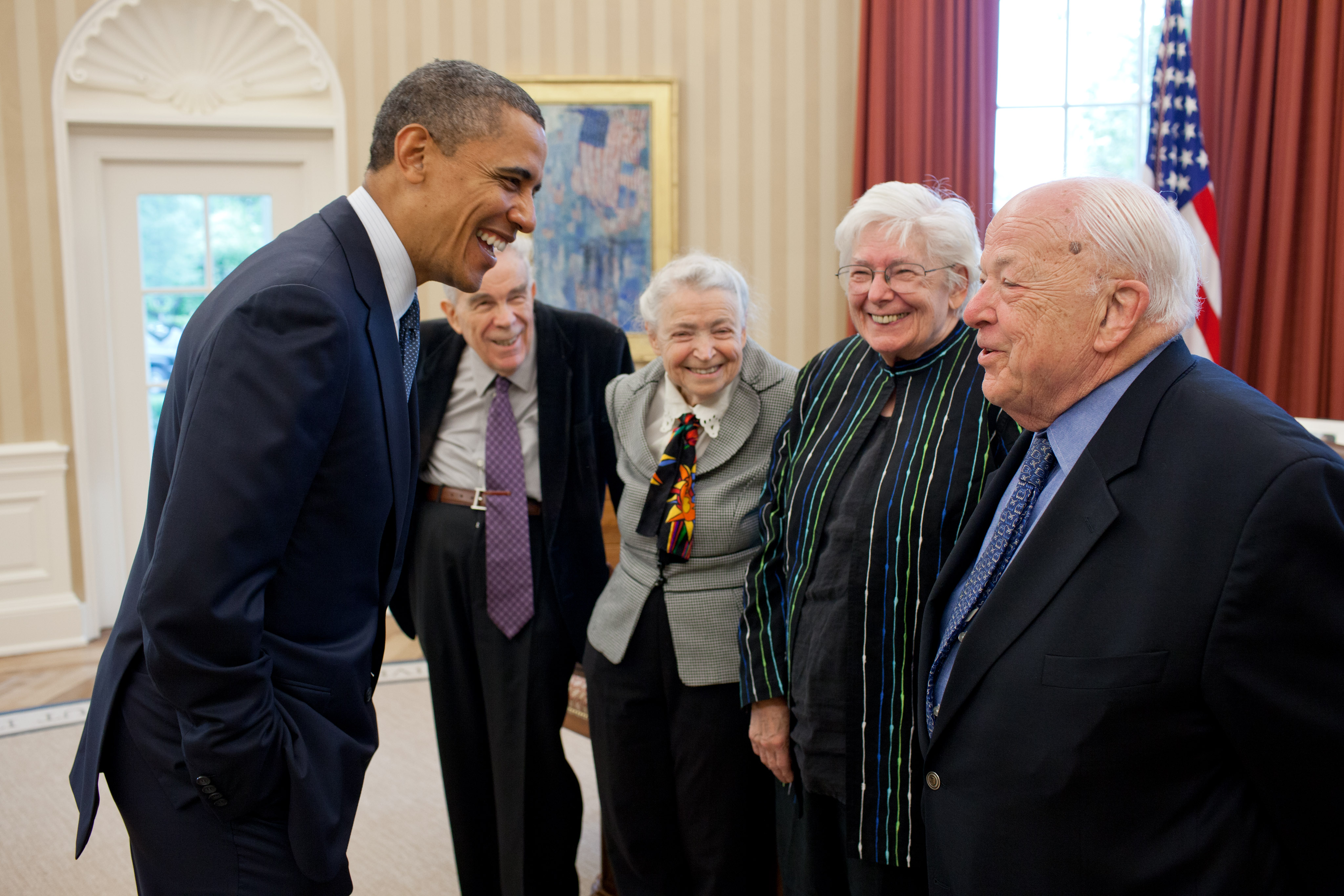 President Barack Obama greets 2010 Fermi Award recipients Dr. Burton Richter, right, and his wife Laurose, and Dr. Mildred S. Dresselhaus, third from right, and her husband Gene, in the Oval Office, May 7, 2012.